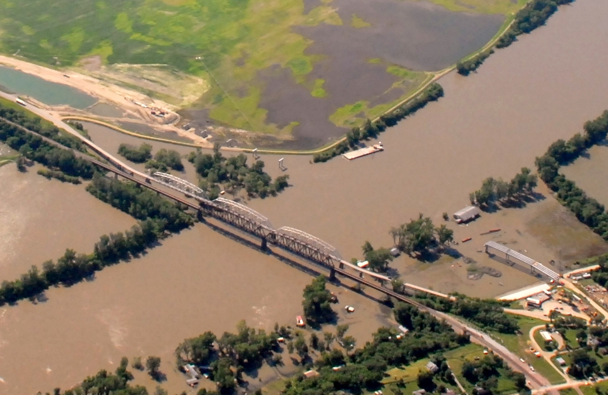 Rulo Nebraska and Rulo Bridges in the 2011 Missouri River floods on June 15, 2011. The edge of Big Lake is in the upper left.